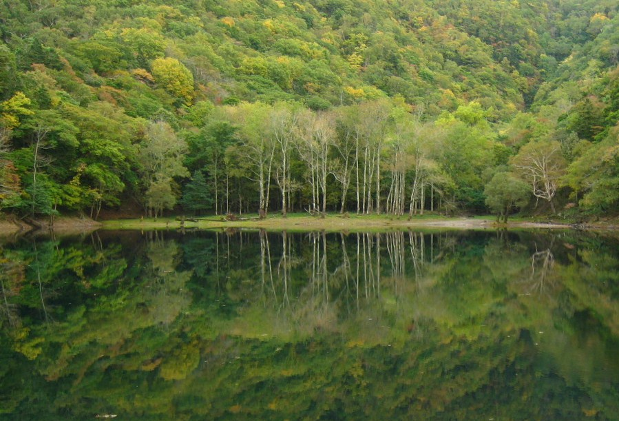 Lake Toyoni in Erimo, Hokkaido, Japan.